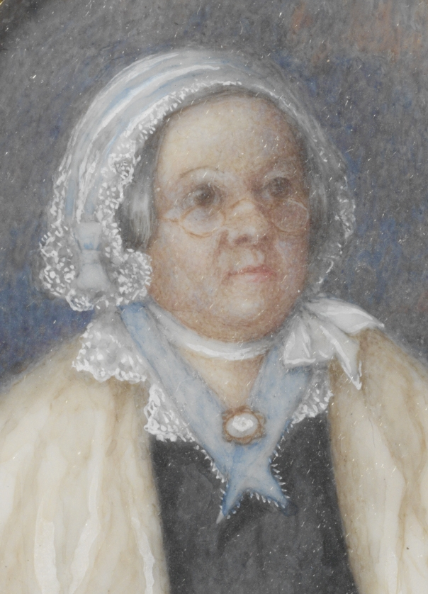 Mary Reibey, baptised Molly Haydock, ca. 1835 - watercolour on ivory miniature MIN 76